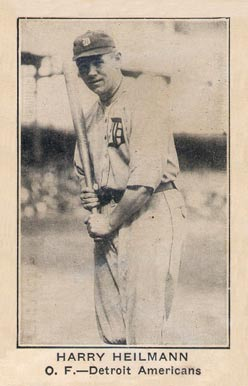 1922 American Caramel baseball card of Harry Heilmann